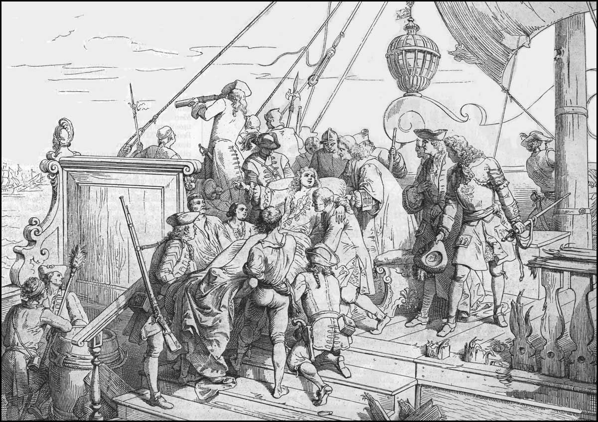 Drawing by Giuseppe Gatteri (1829-1884) depicting the last moments of Lodovico Flangini on boards of the Leon Trionfante on the 22nd June 1717.